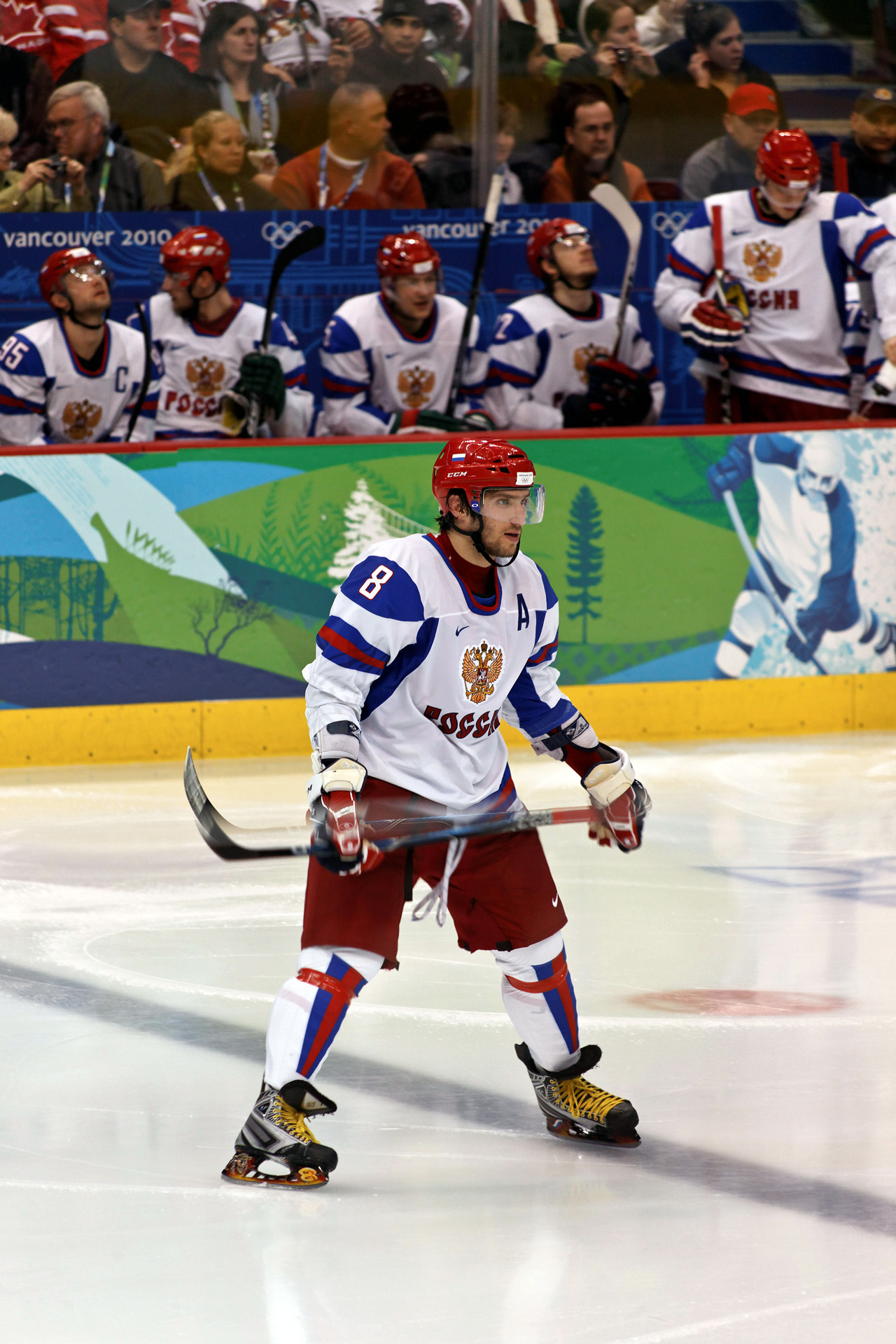 Russia forward Alexander Ovechkin in action against Slovakia during the 2010 Winter Olympics